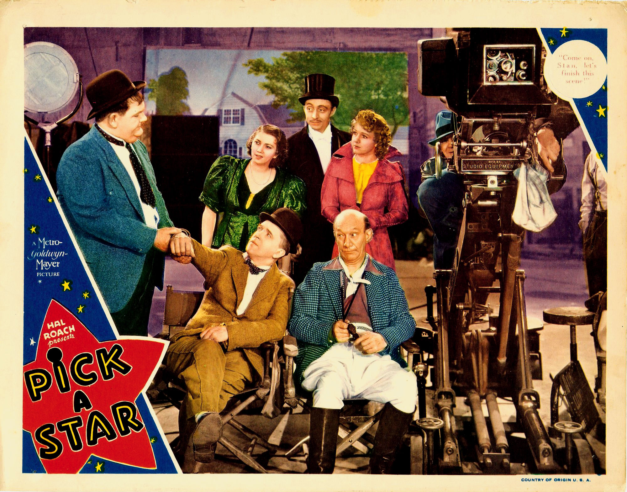 Lobby card for the 1937 film Pick A Star. Caption: "Come on, stars, let's finish this scene!"